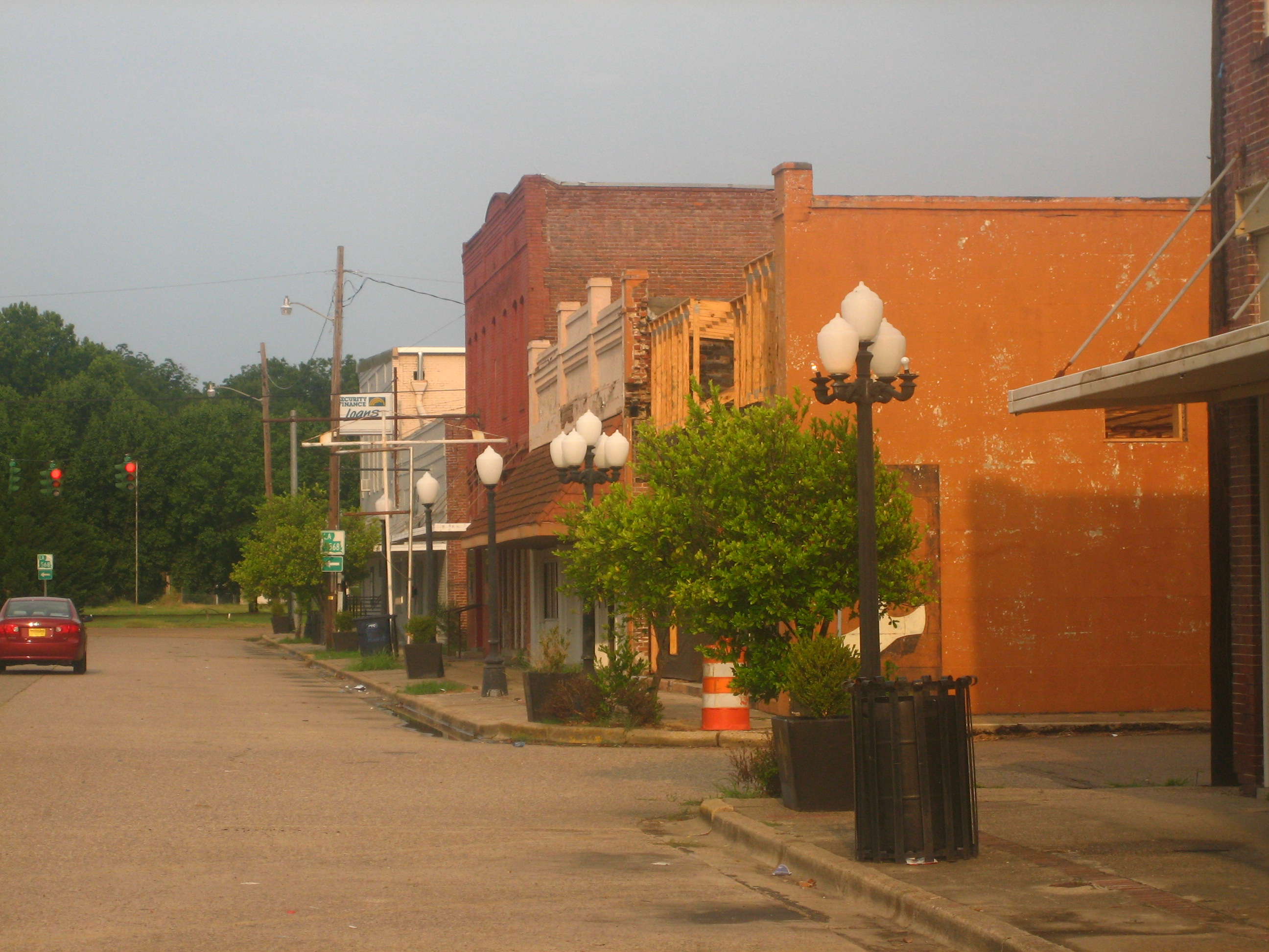 I took photo on Aug. 1, 2008.Billy Hathorn (talk) 06:41, 27 September 2008 (UTC)